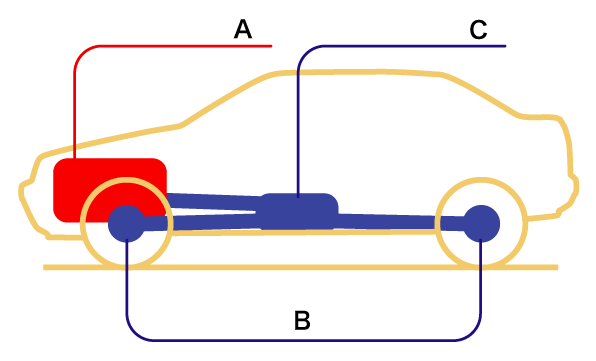 A four-wheel-drive conception diagram by a car terminology. "A" points at an engine, and "B" points at a driving wheel. And "C" points at a center differential.